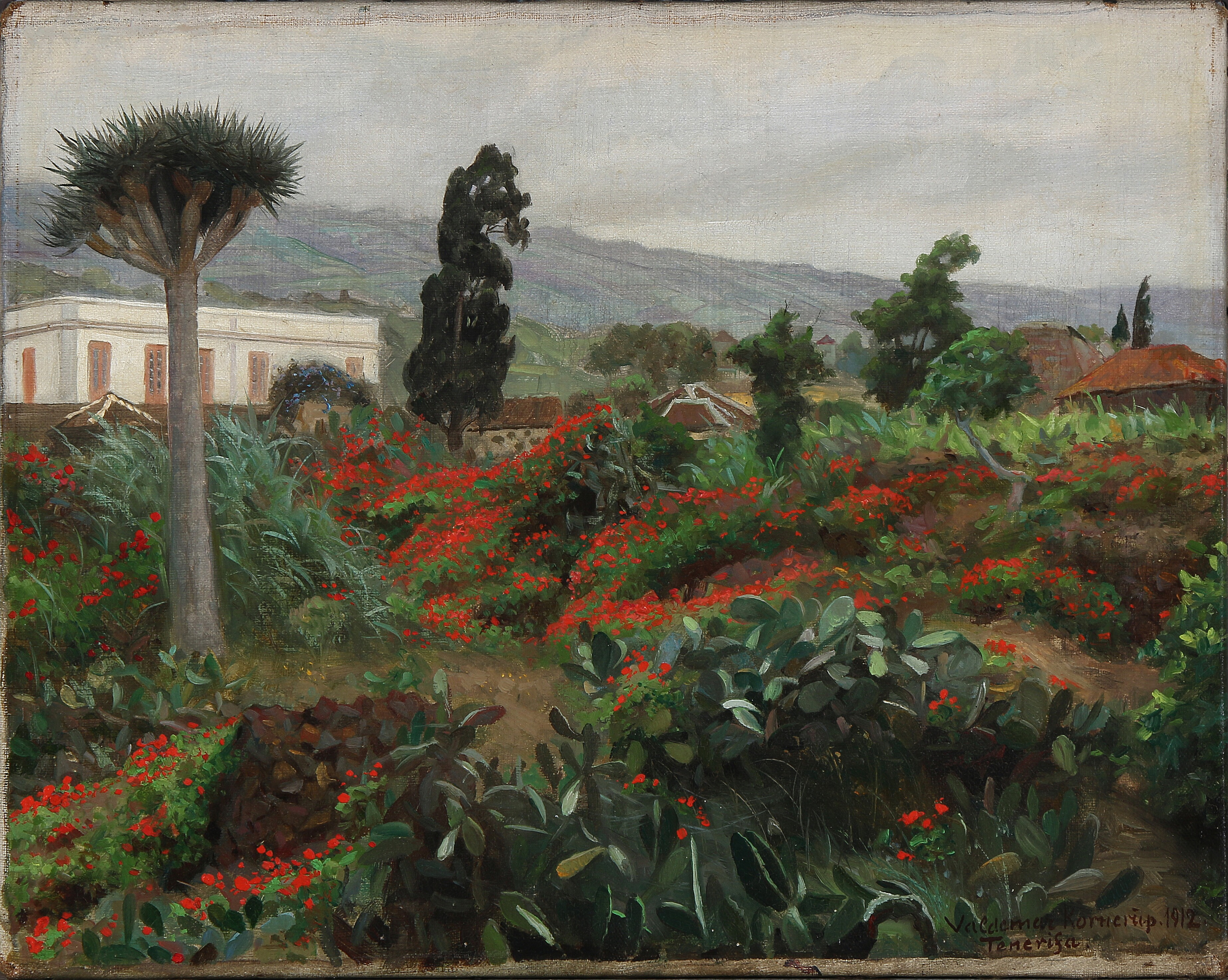 Gardens and mountains on Tenerife, which Kornerup spells Tenerifa in his signature.